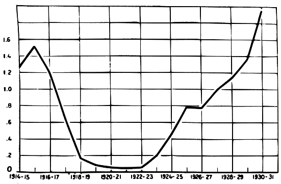 Russian cotton production surpassed to its pre-war peak and the Soviet Government planned to increase it considerably more. The Russian crop of 1929 was one-tenth as large as that of the United States, or about equal to that of Egypt or the commercial crop of China.